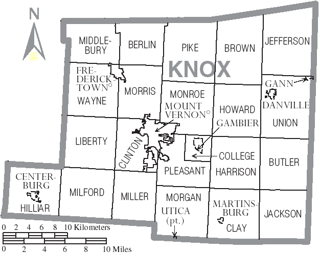 Map of Knox County, Ohio, United States with township and municipal boundaries